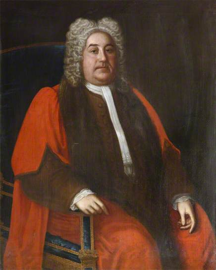 Portrait of Benjamin Incledon (1730-1796) of Pilton House, Pilton, near barnstaple, Devon, antiquary and Recorder of Barnstaple (1758–1796).